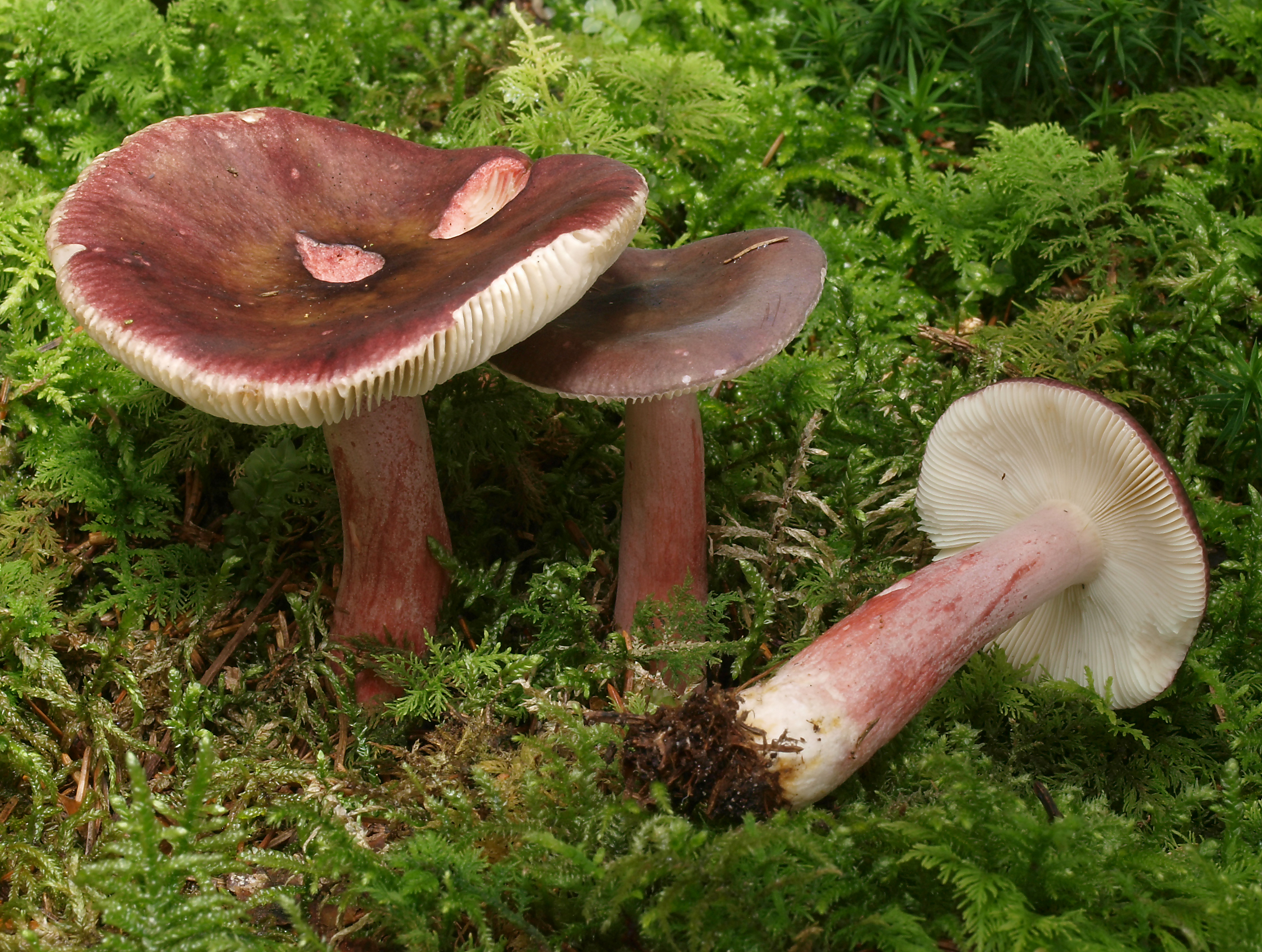 Fruity Brittlegill (Russula queletii)